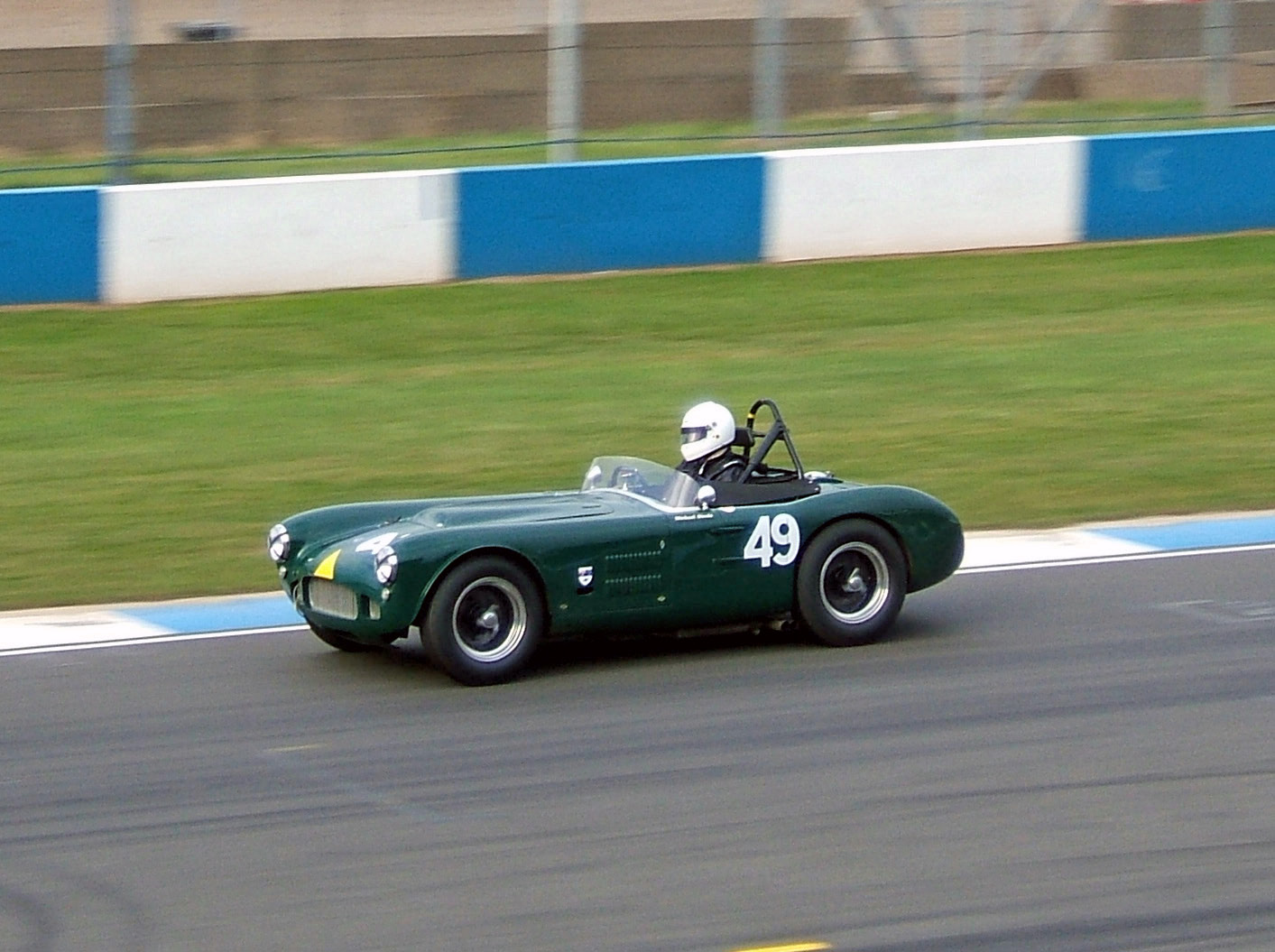 An HWM Sports model, at speed on the Wheatcroft Straight during the VSCC SeeRed race meeting, Donington Park, September 2007.